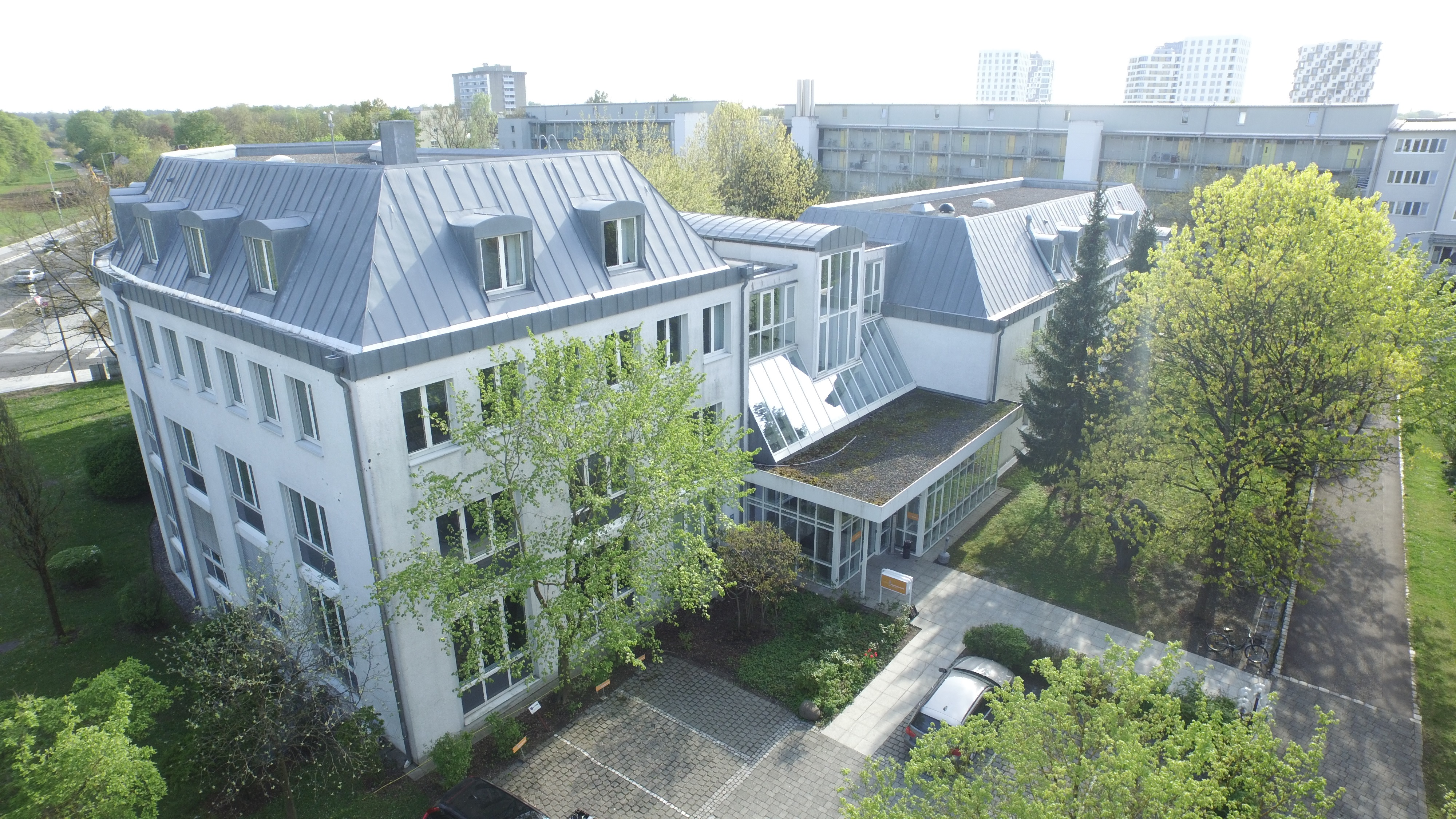 Aerial view of NEC Campus